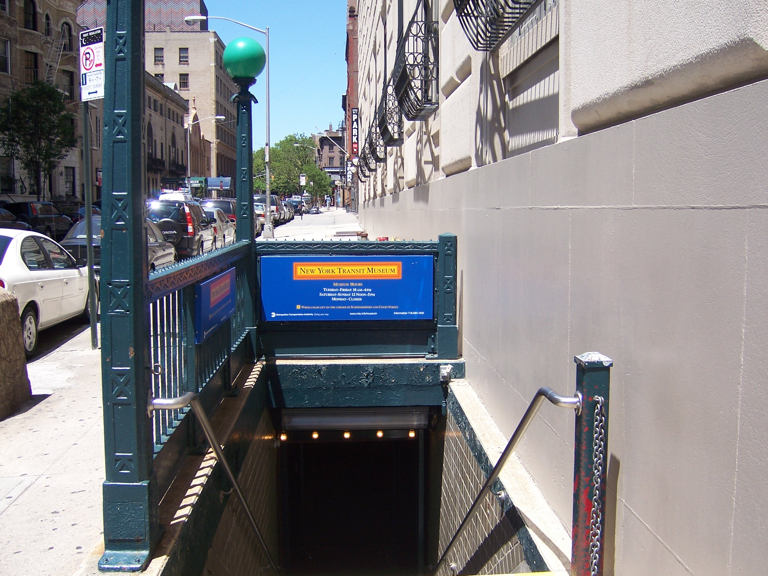 New York Transit Museum